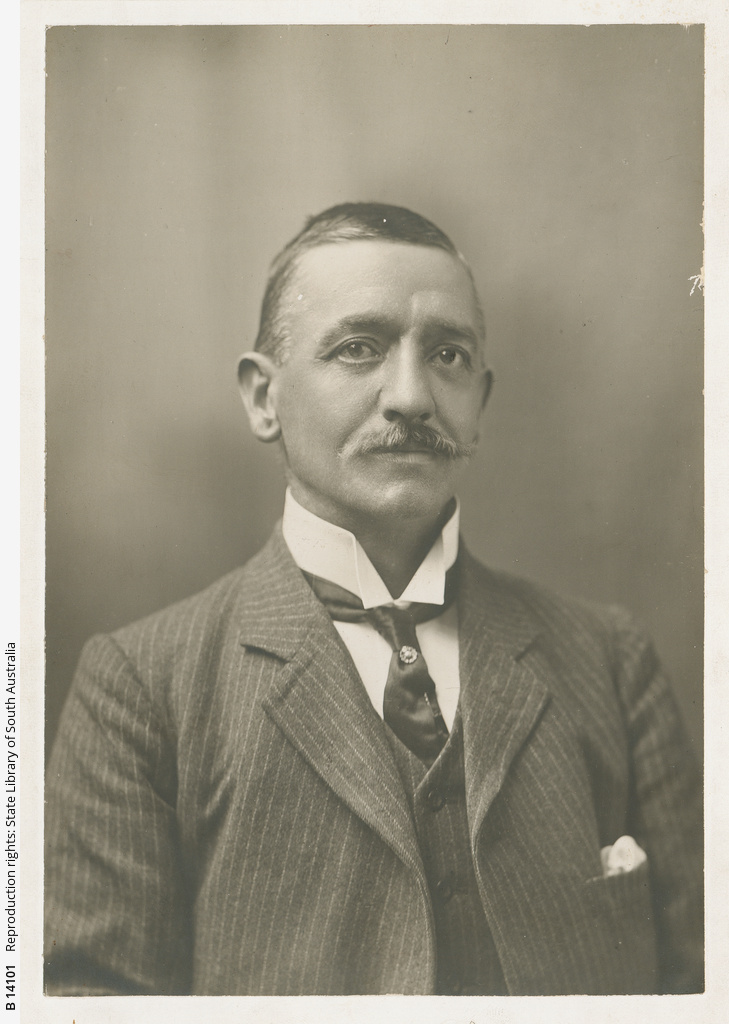 Richard Thelwell Maurice, Australian explorer B 1859 D1909.